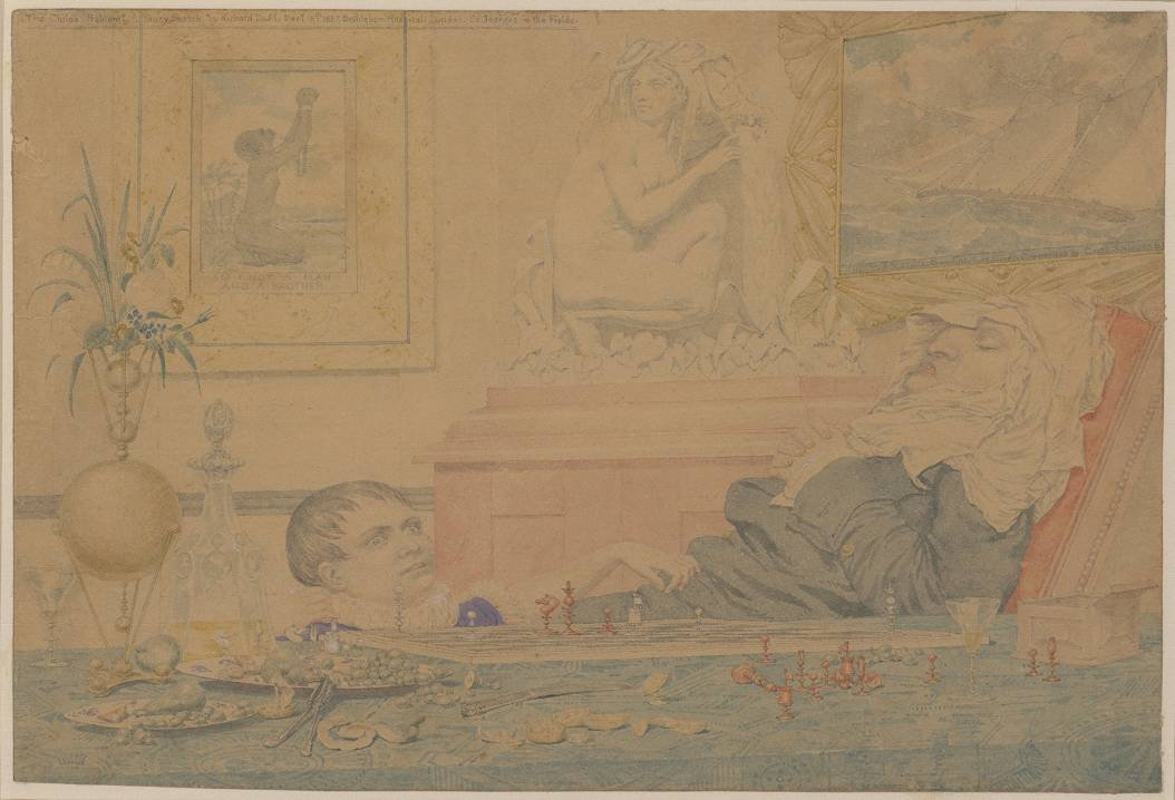 The Child's Problem